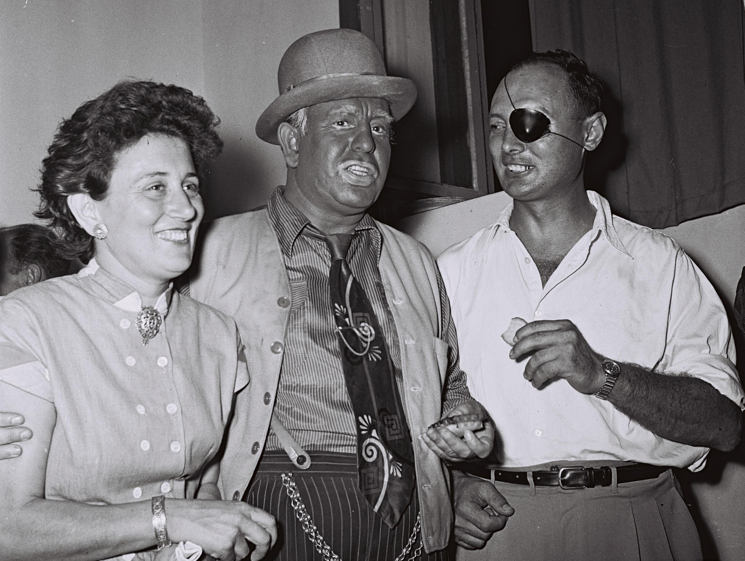 MOSHE DAYAN AND HIS WIFE RUTH WITH ONE OF THE HABIMA ACTORS IN - CRY BELOVED COUNTRY -BACKSTAGE IN TEL AVIV. משה דיין ואישתו רות עם שחקן הבימה שמואל רודנסקי, מאחורי הקלעים של ההצגה 'זעקי ארץ אהובה' Photo: Hans Pinn (1916–1978) Alternative names הנס פין; פין, חיים; פין, הנס; פין, ה. חיים; Hans Chaim Pinn; Pinn, Hans H; Pinn, H. Hayim; Pin, H. Ḥayim; Fin, H. Ḥayim; Hans H. Pinn; H. Ḥayim Pin; Piyn, Ḥayyim; Pinn, ChaimDescriptionIsraeli photographerDate of birth/death 16 November 1916 30 May 1978 / 13 May 1978Location of birth/death Berlin HerzliyaAuthority control : Q16129161 VIAF: 51249035 ISNI: 0000 0001 1234 9240 ULAN: 500479725 LCCN: no90017900 Open Library: OL6752235A WorldCat creator QS:P170,Q16129161 , 07/02/1953